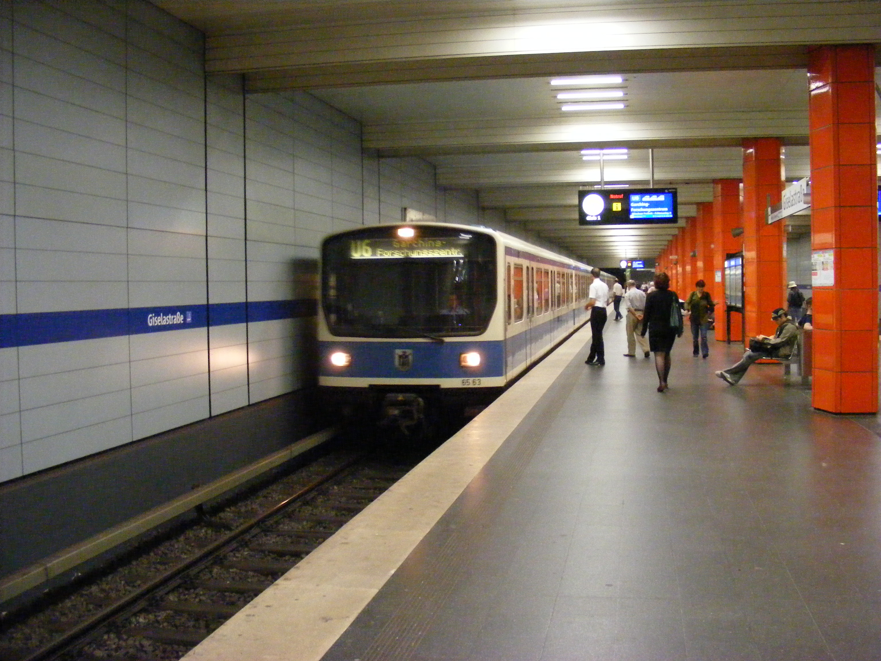 Munich - U-Bahnhof Giselastraße, platform with train.